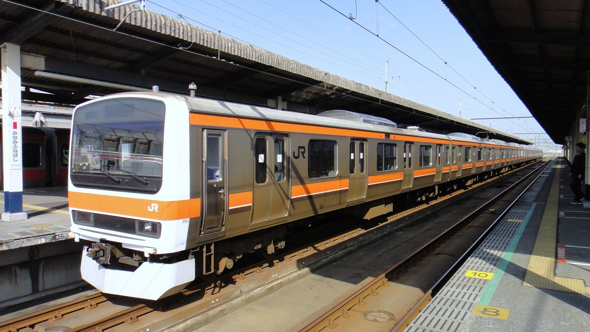 JR East Musashino Line 209-500 series EMU set M73 at Minami-Funabashi Station